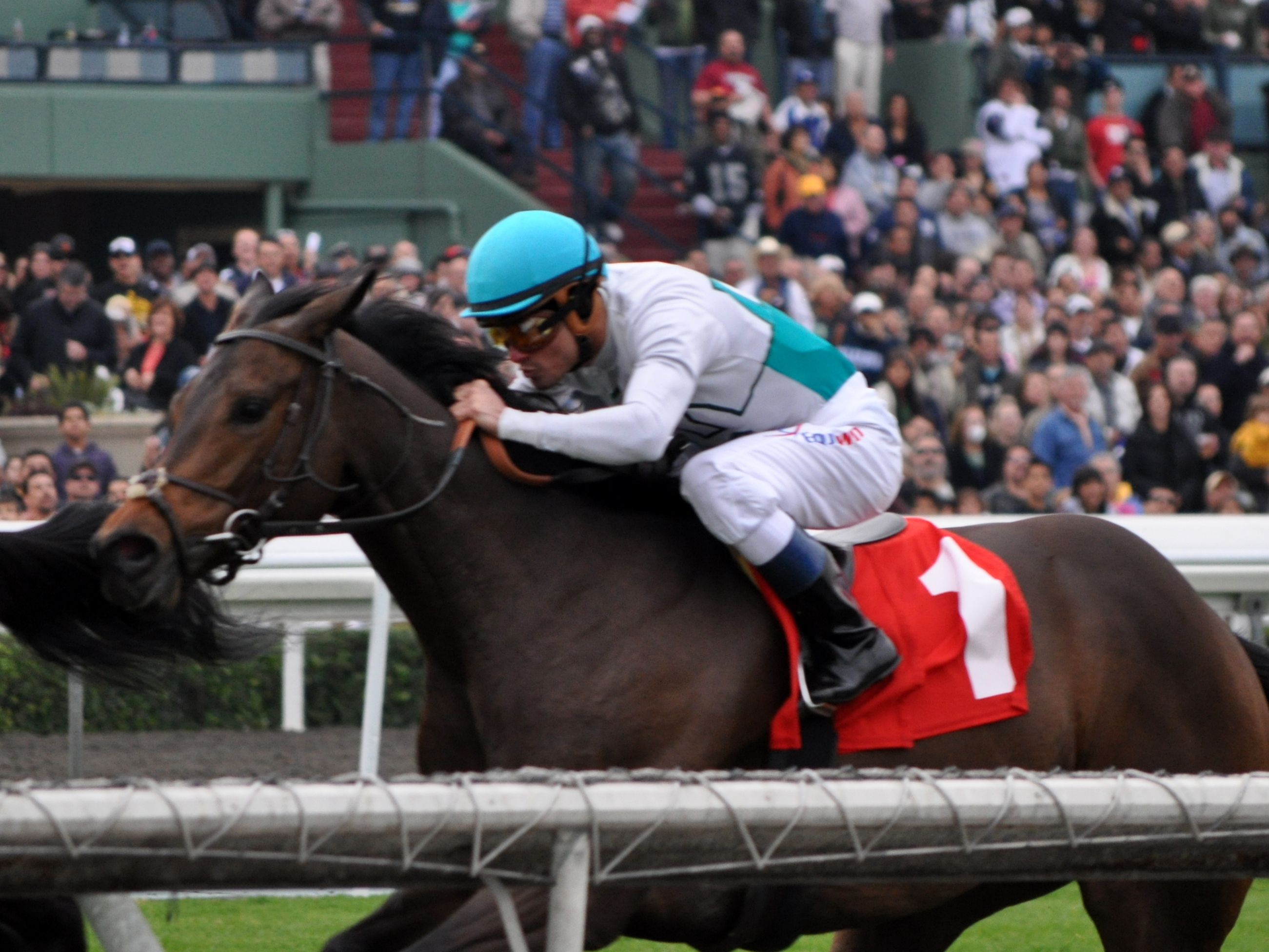 Alex Solis on Leandros in the 5th race at Santa Anita on opening day.